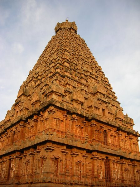 A panoramic rear-view of the main gopura or tower of the Brihadeeswara Temple at Thanjavur. This still was taken by me.